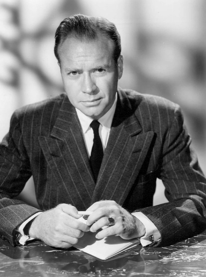 Photo of Lyle Bettger from the television program Court of Last Resort.